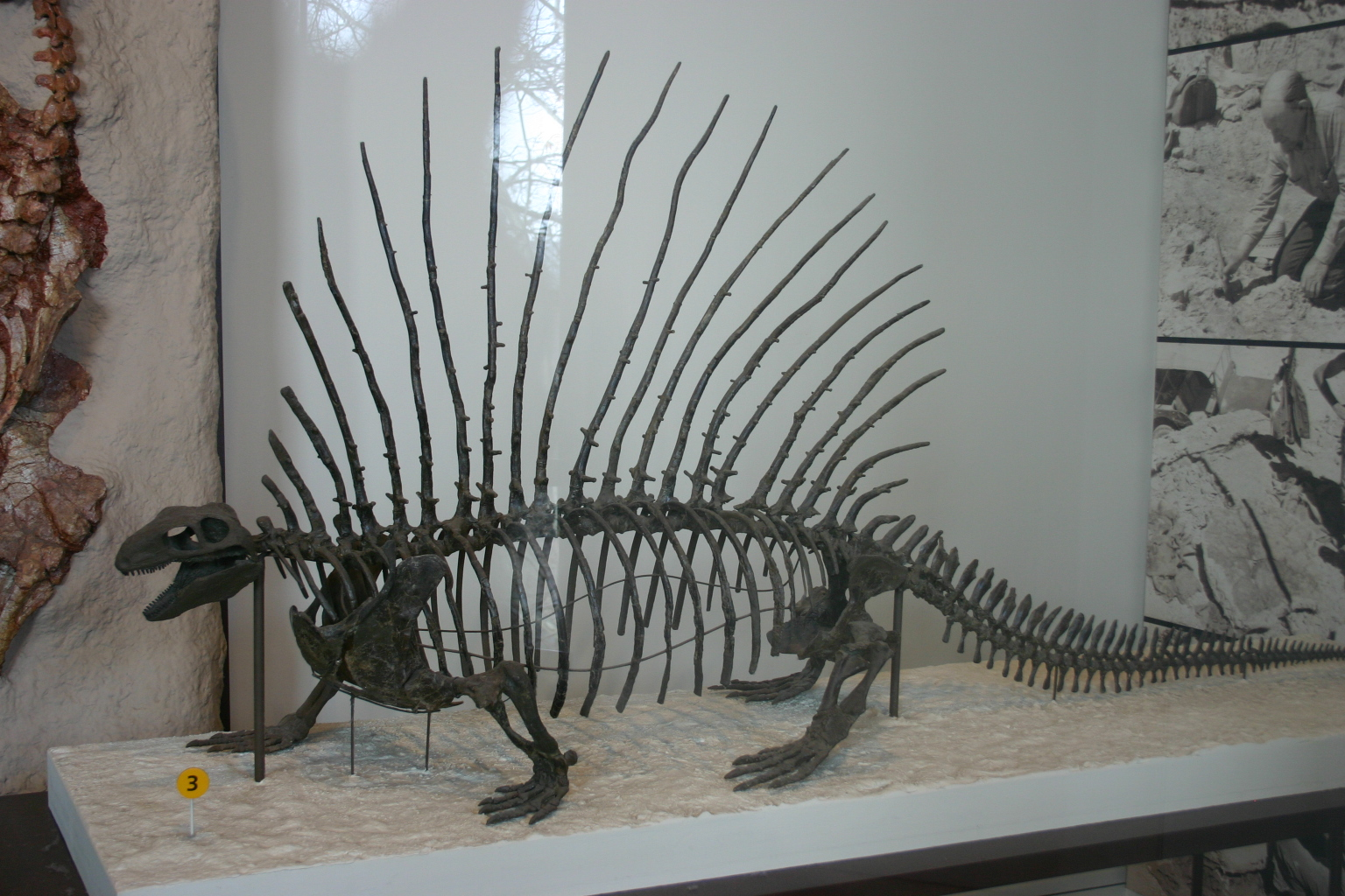 earth reptile Visit my blog at